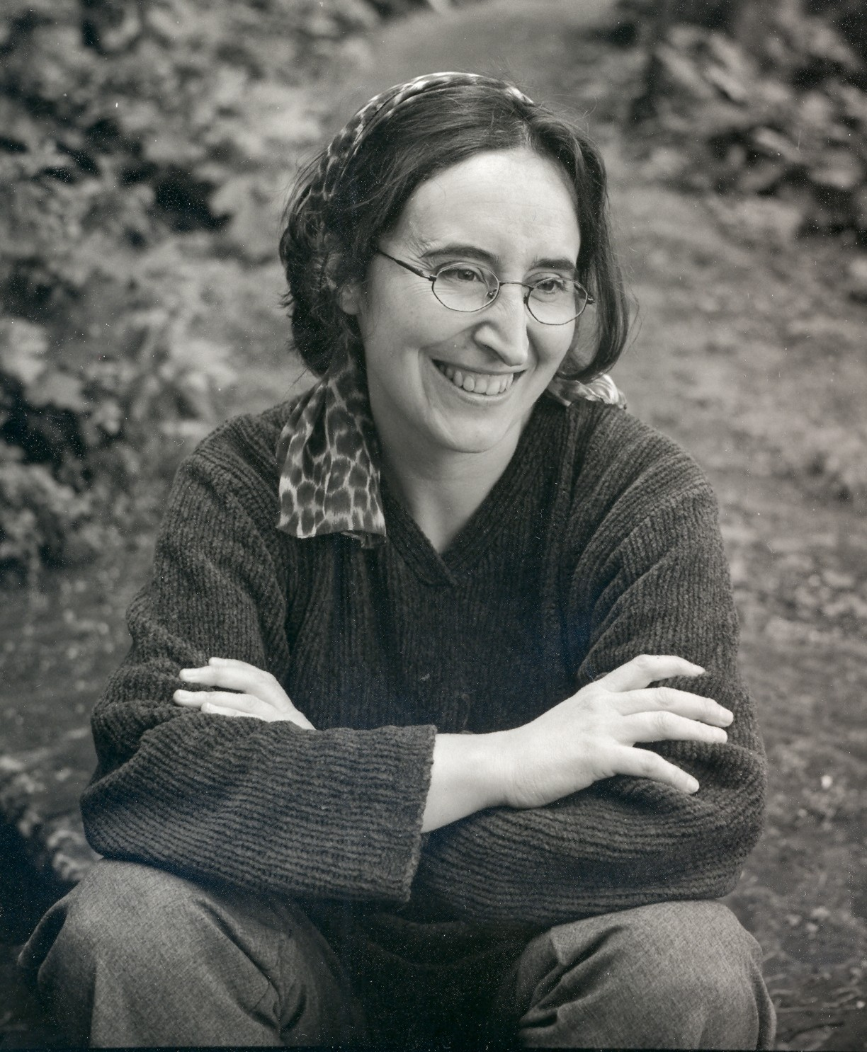 Sofía Martínez